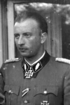 Title: Russland, Hermann Fegelein mit Sturmbannführer Extra information: Sowjetunion.- SS-Standartenführer Hermann Fegelein People in the image: Fegelein, Hermann: SS-Standartenführer, Ritterkreuz (RK), Waffen-SS, Deutschland (GND 122319524) Factual corrections and alternative descriptions are encouraged separately from the original description. Additionally errors can be reported at this page to inform the Bundesarchiv. Original historic description